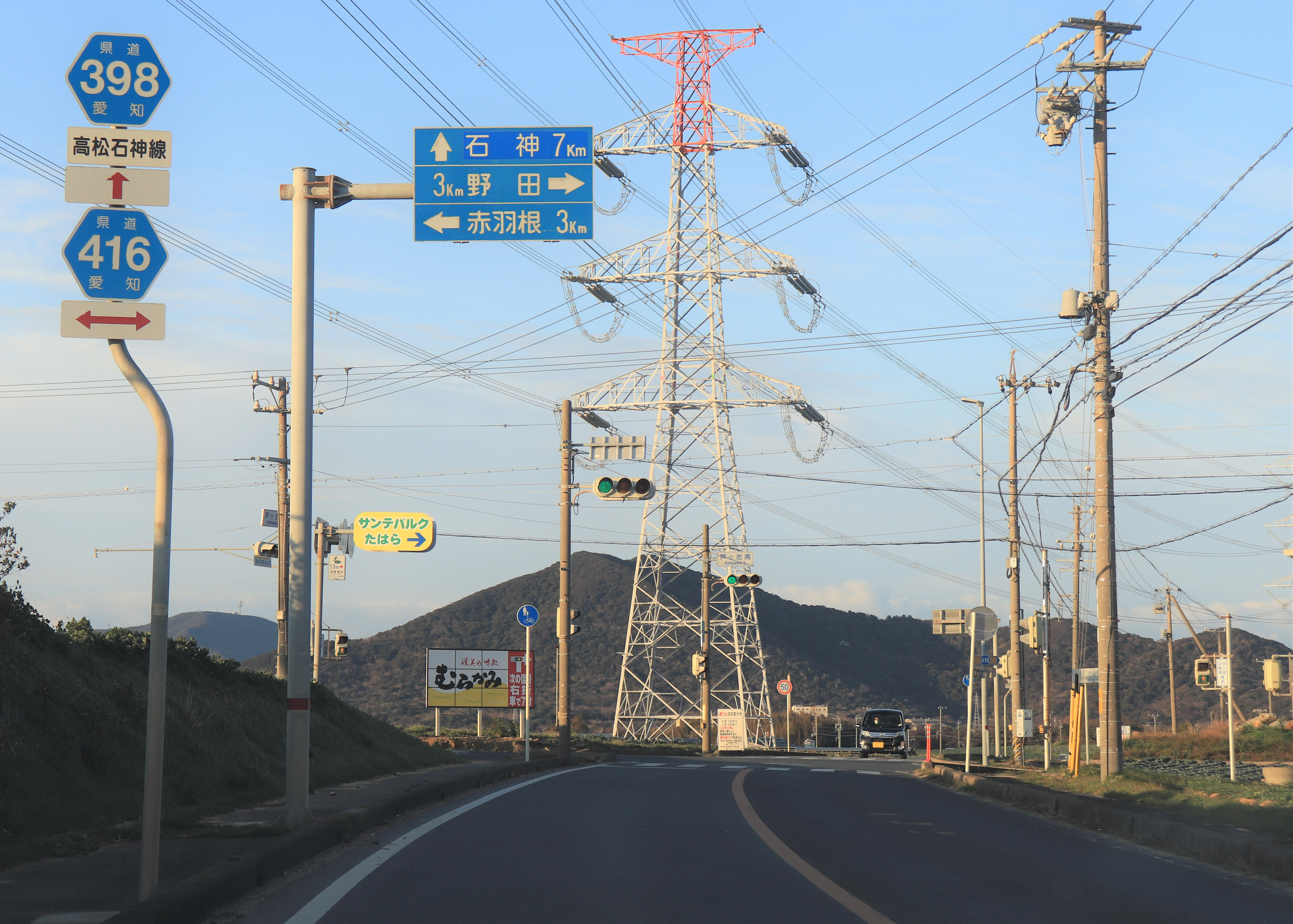 Aichi Prefectural Road Route 398 and Aichi Prefectural Road Route 416 in Noda-cho, Tahara, Aichi Prefecture, Japan.